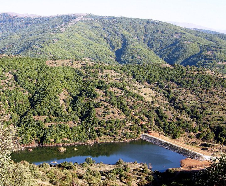 The dam of Germas village, Kastoria peripheral unit, Greece